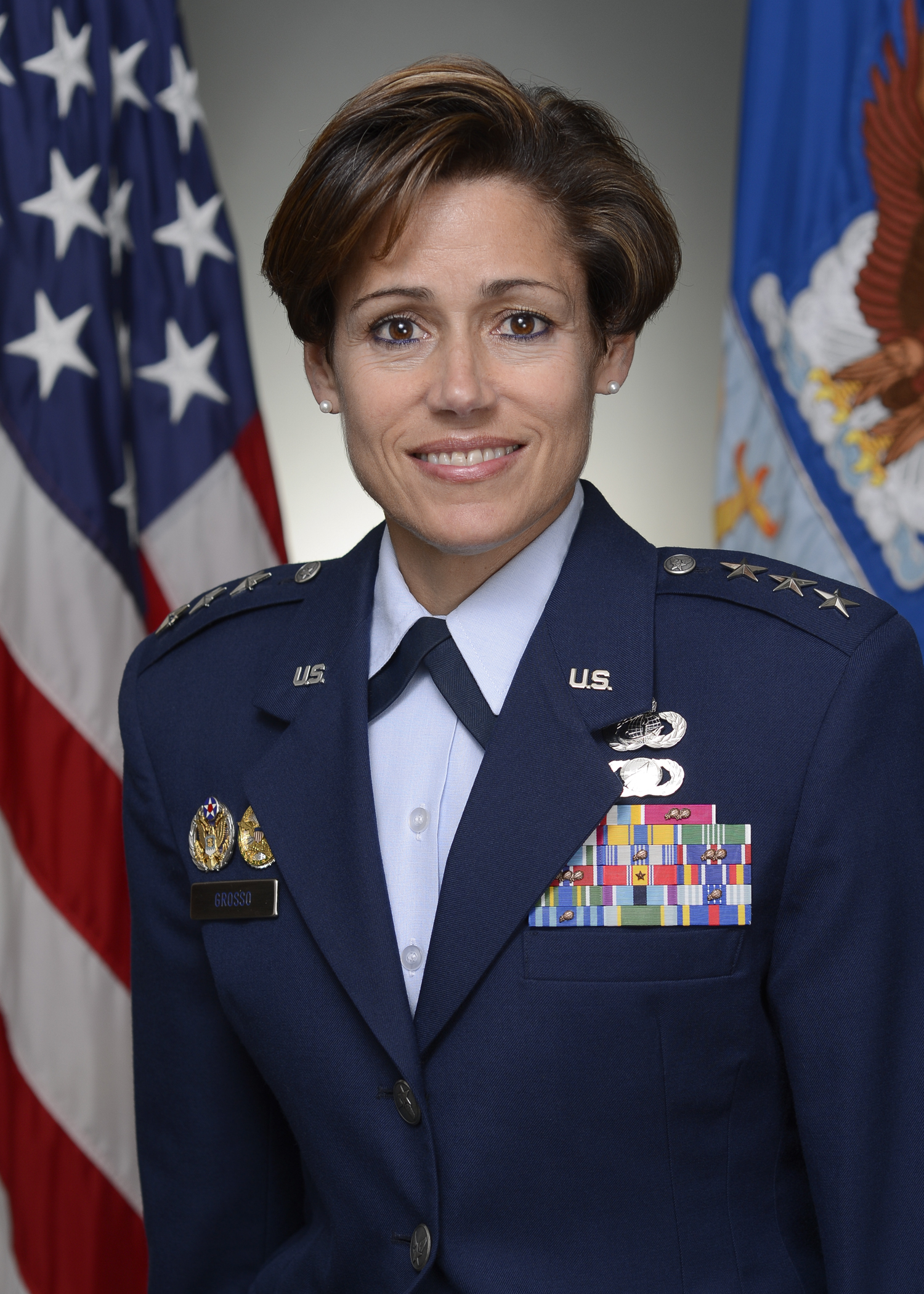 Official Air Force Image: LtGen Gina Grosso Bio Photo